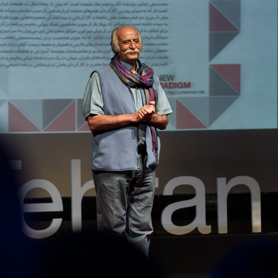 Mohammad Ali Inanlou \\ Half a century with Iran nature TEDxTehran 2015 - New Paradigm - December 4, 2015, Razi International Conference Hall, Tehran, Iran. Photo: Mohammad Hossein Rahmani/TEDxTehran